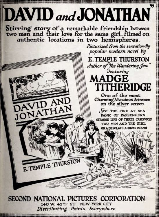 American advertisement for the British film David and Jonathan (1920), on page 19 of the January 14, 1922 Exhibitors Herald. The ad does not contain any stills or images from the British film and consists of a drawing.